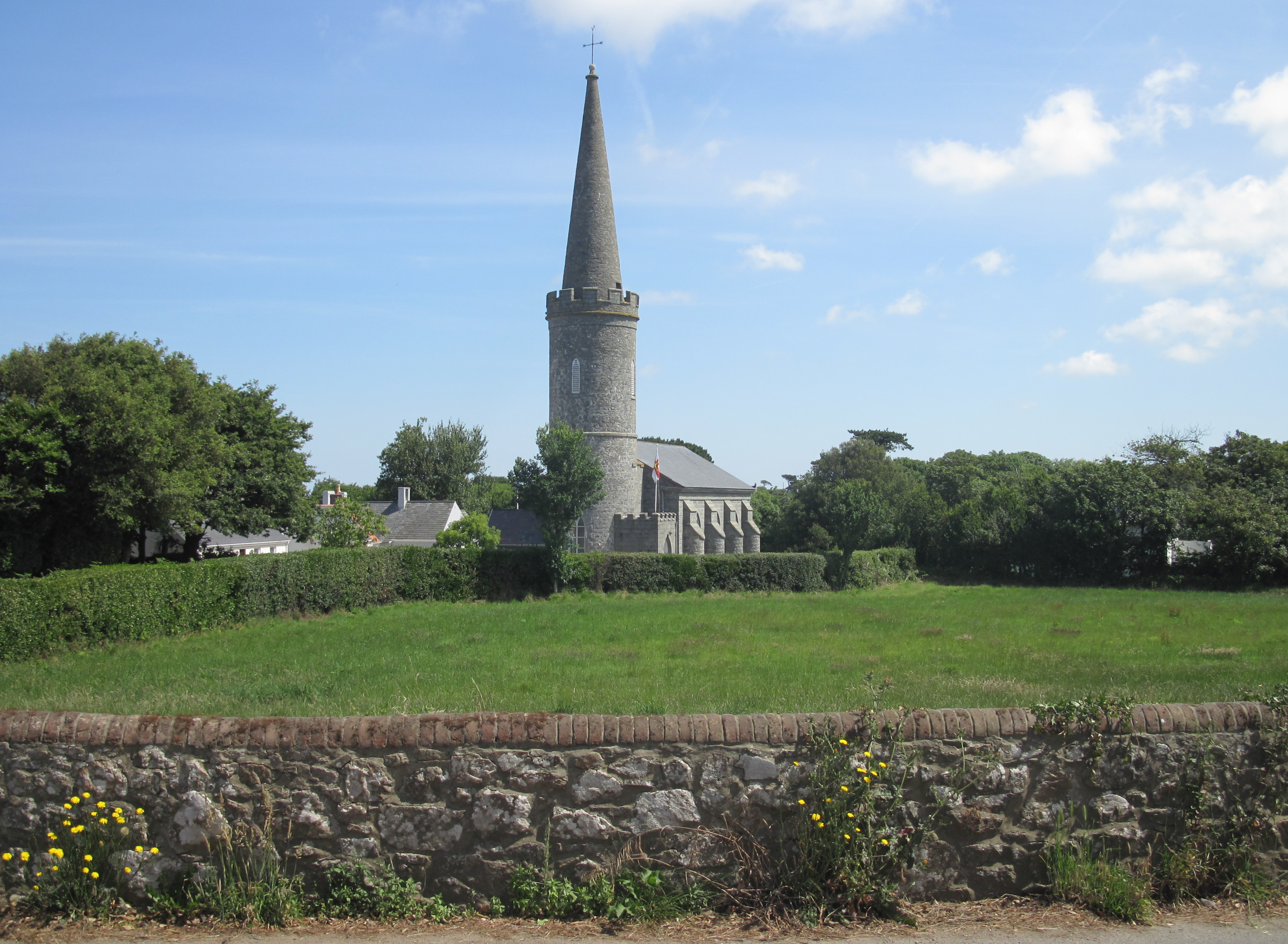 Guernsey, June-July 2011: Torteval church